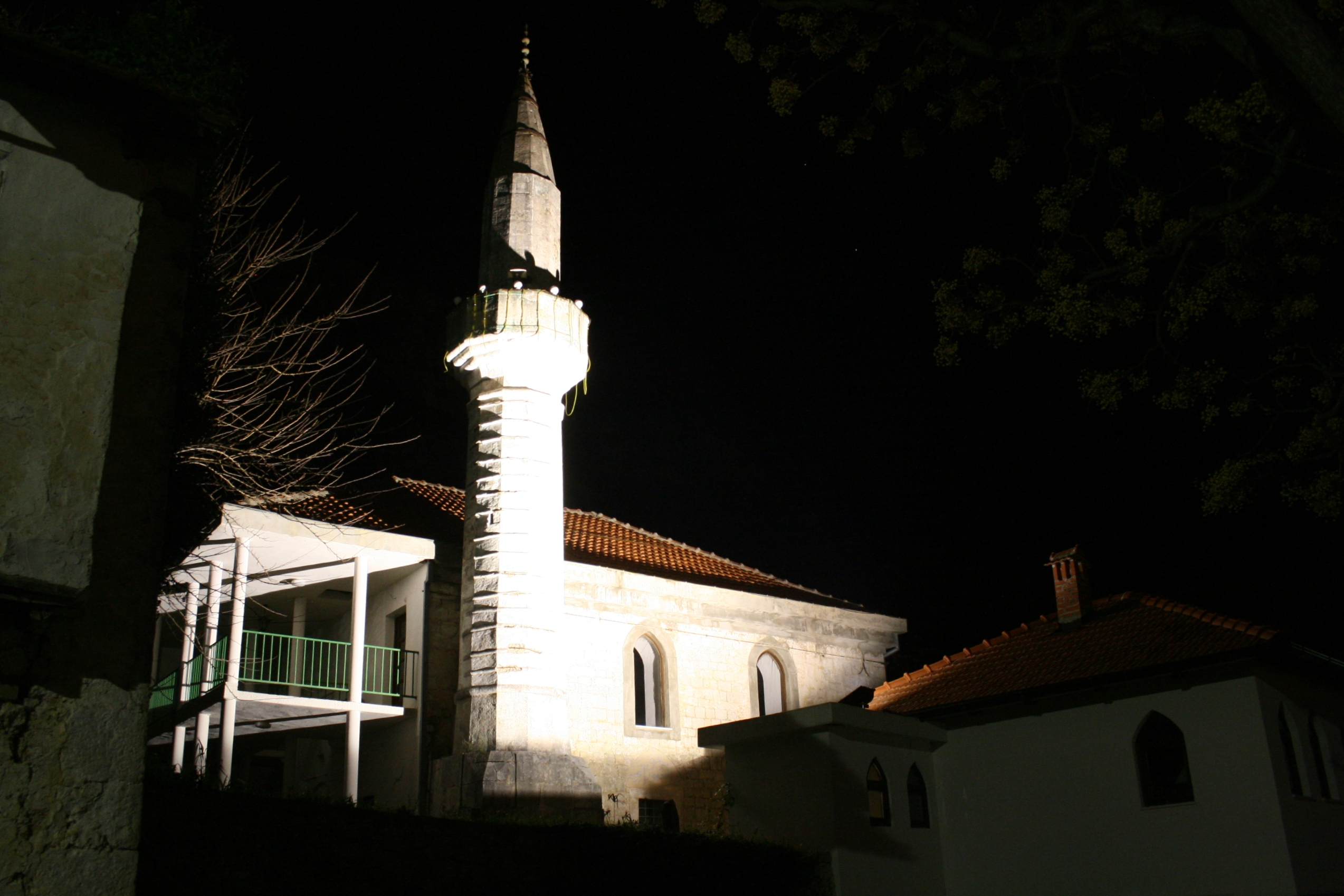 Žabljak mosque, Ljubuški, Bosnia and Herzegovina